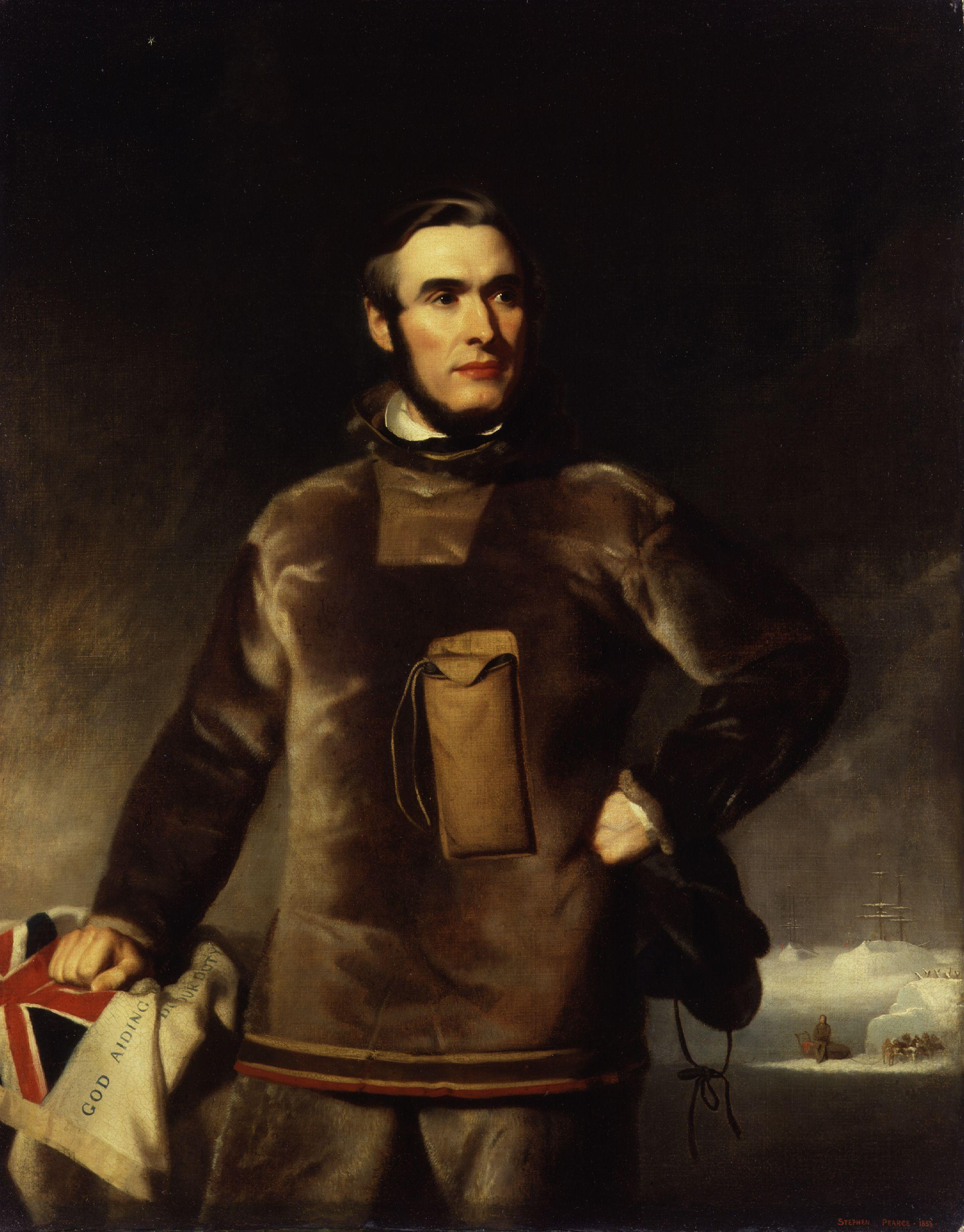 William Penny, by Stephen Pearce (died 1904). Oil on canvas, 1853 50 1/8 in. x 39 3/8 in. (1273 mm x 1000 mm) All images in this batch have been confirmed as author died before 1939 according to the official death date listed by the NPG.